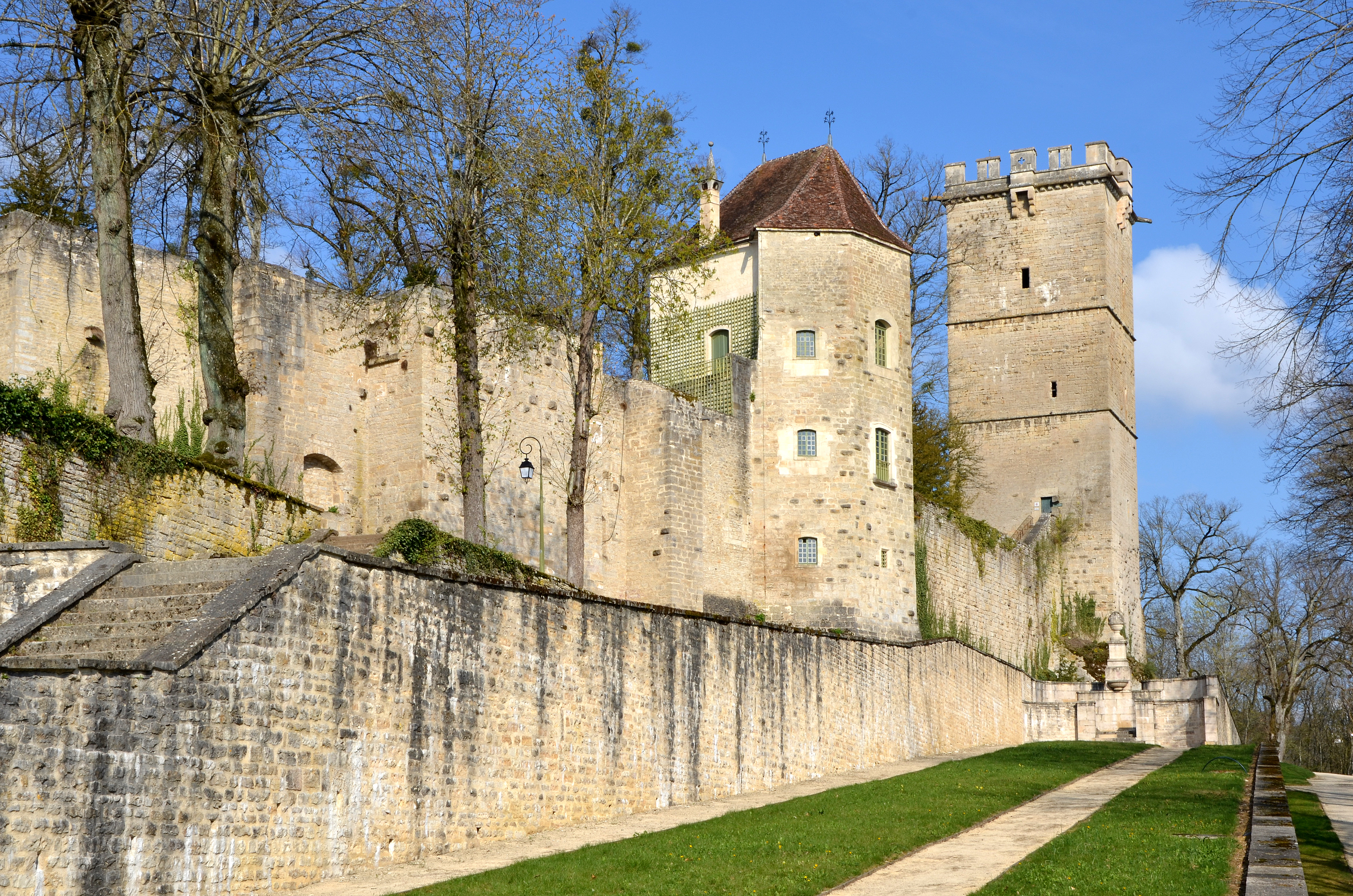 Buffon park in Montbard, Bourgogne, France. The naturalist Buffon in 1735 acquired the ruined fortress built between the X and XIV century and made ​​his permanent residence. He keeps the walls and two towers: the St. Louis tower in the foreground is transformed into a library. The Aubespin tower 40 meters high is used for experiments on the winds.